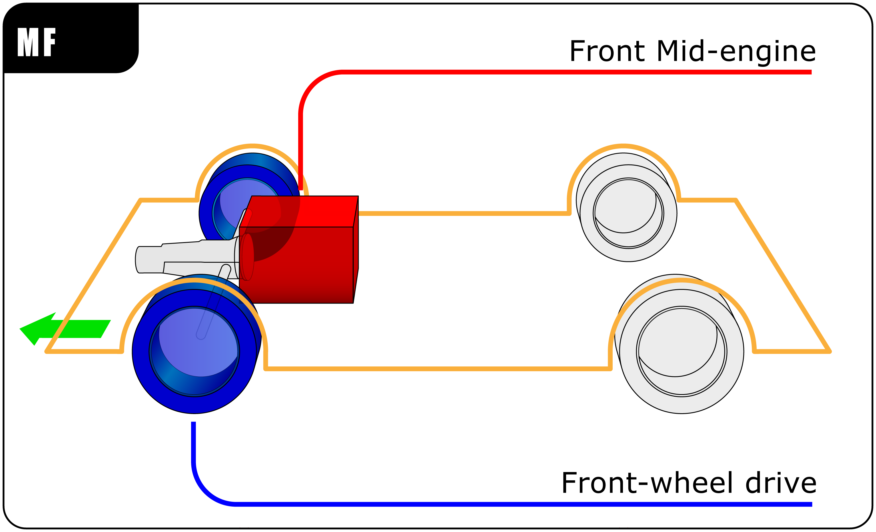 Vehicle engine and drive wheel placement diagrams (German versions coming soon)